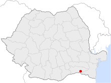 Location of Călărași in Romania.